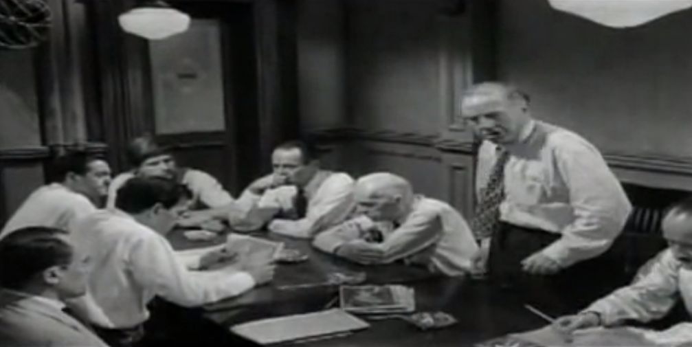 Moviescene from the trailer of Twelve Angry Men